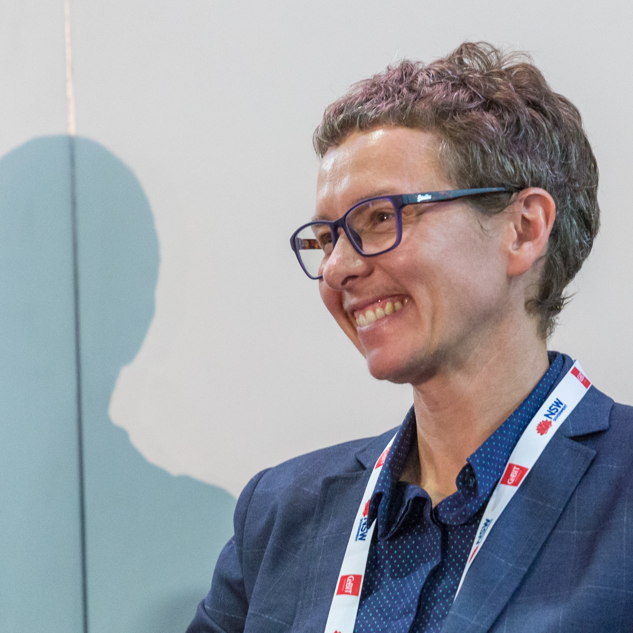 Elanor Huntington at CEBIT Australia in May 2018